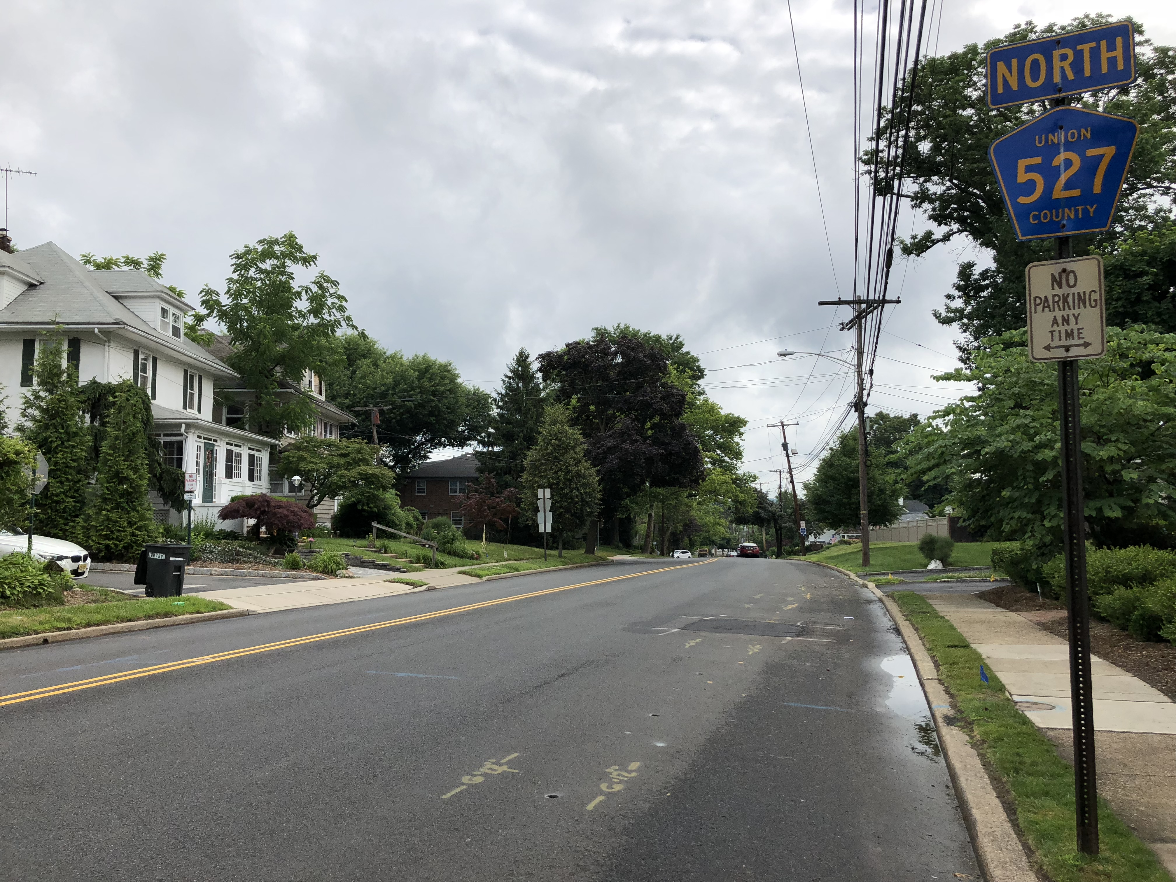 View north along Union County Route 527 (Morris Avenue) just north of Union County Route 636 (Orchard Street) in Summit, Union County, New Jersey